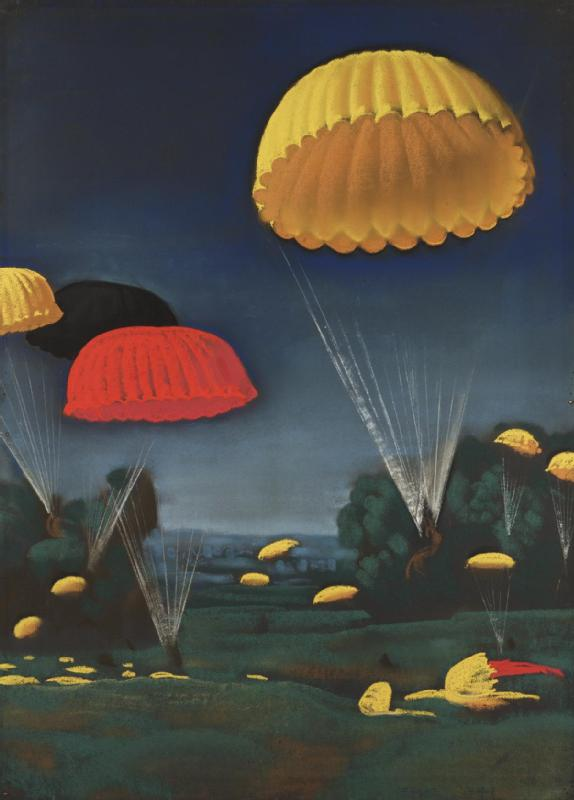 Parachutes image: a parachute drop at night, in fields with trees. Some parachutes are still falling, others are on the ground.